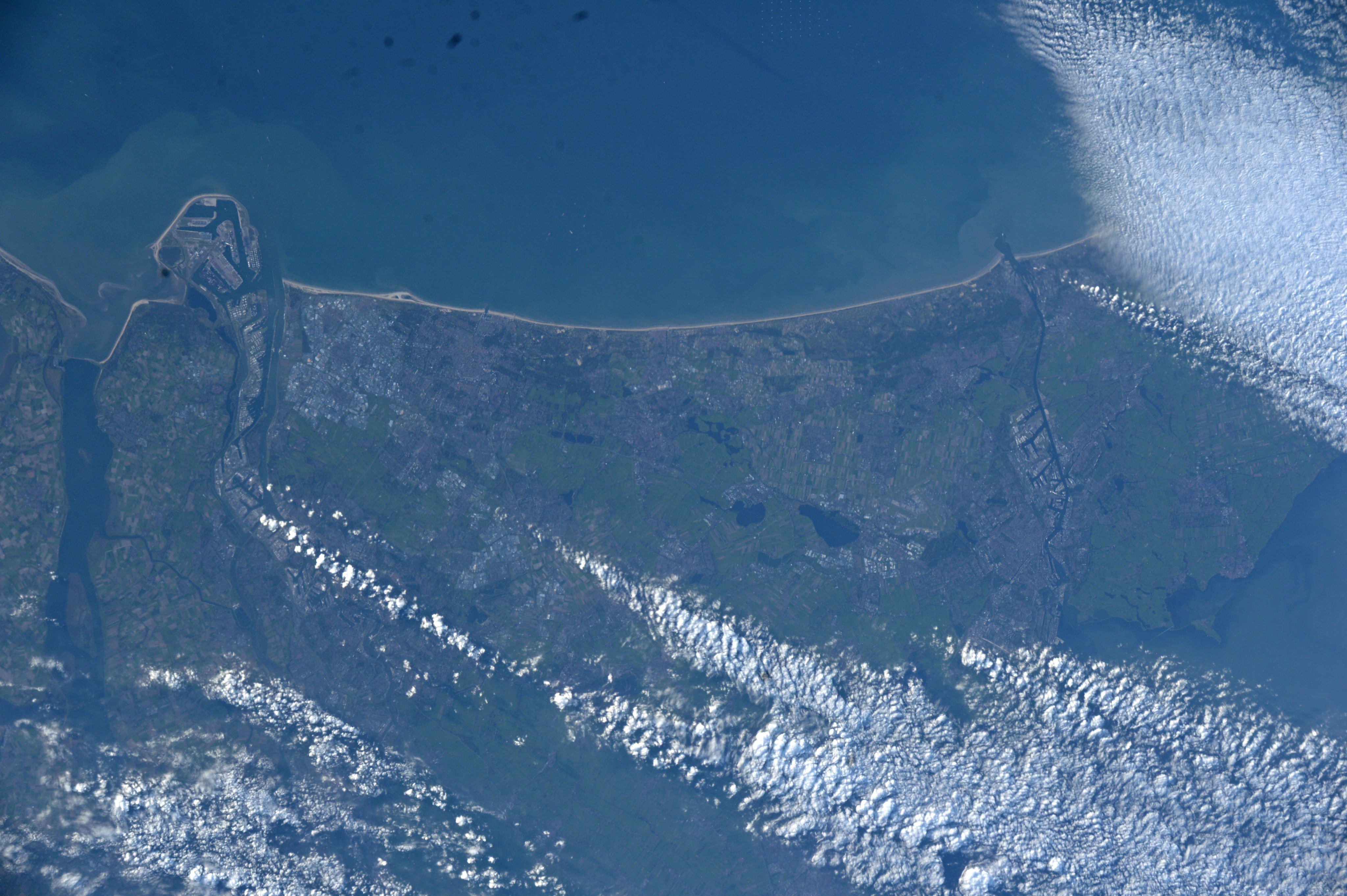 There is always something interesting to see on the canals of Amsterdam. #OneWorldManyViews